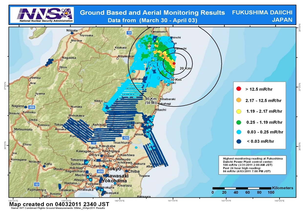 Combined results of 211 flight hours of aerial monitoring operations and ground measurements made by DOE, DoD and Japanese monitoring teams.